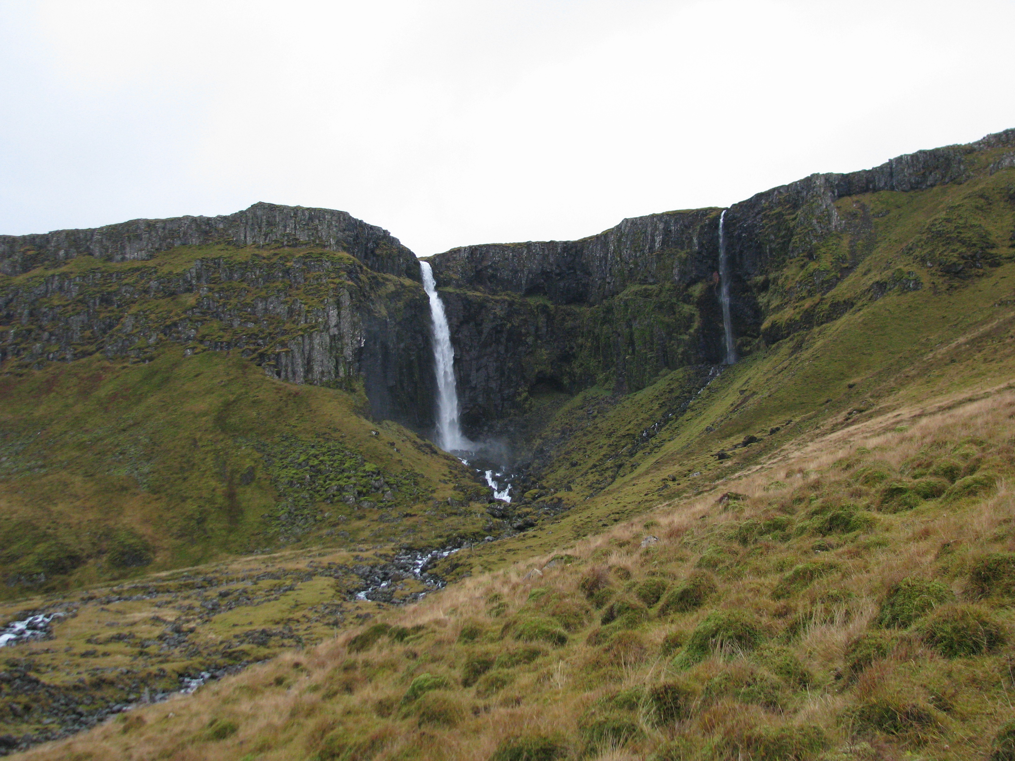 The Grundarfoss, a waterfall on the Snaefellsnes peninsula near Ólafsvík.